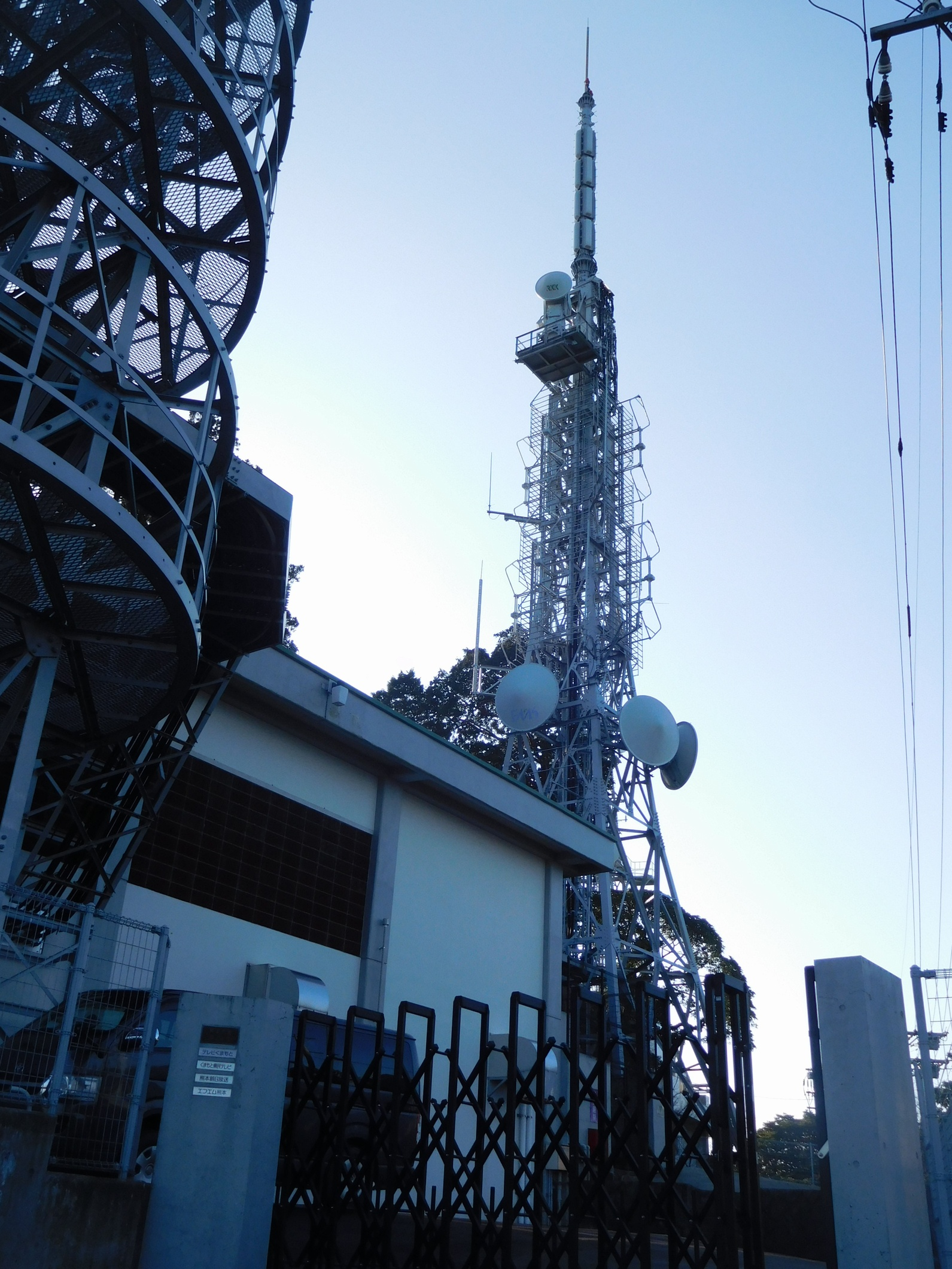 RKK/TKU/KKT/KAB/FM Kumamoto (FMK) Kinbo-zan (Kumamoto) Transmitting Tower in 2015 (Kumamoto City, Japan)